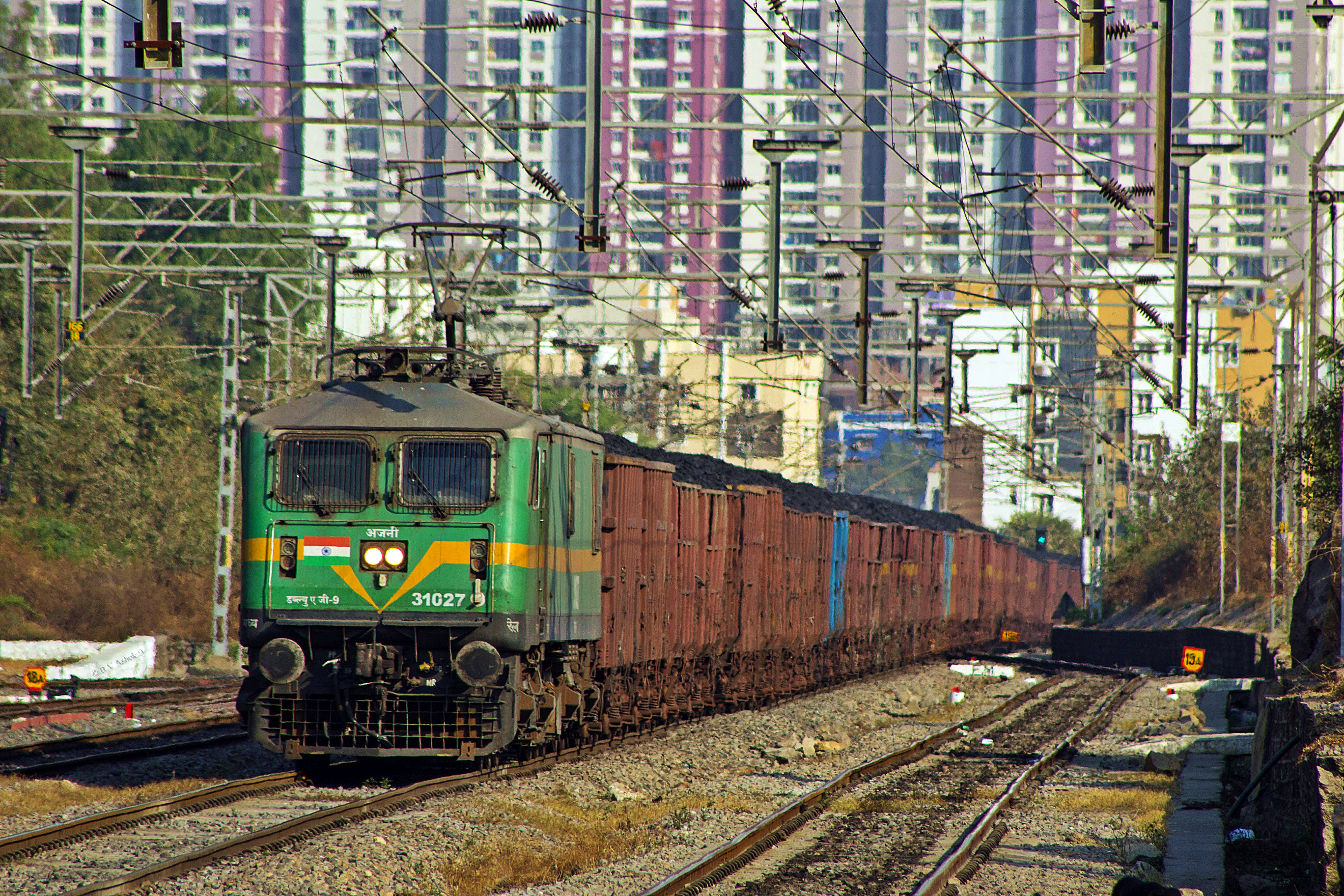 AJNI WAG-9 31027 cruising through mainline of Hafizpet with a loaded BOXN rake....